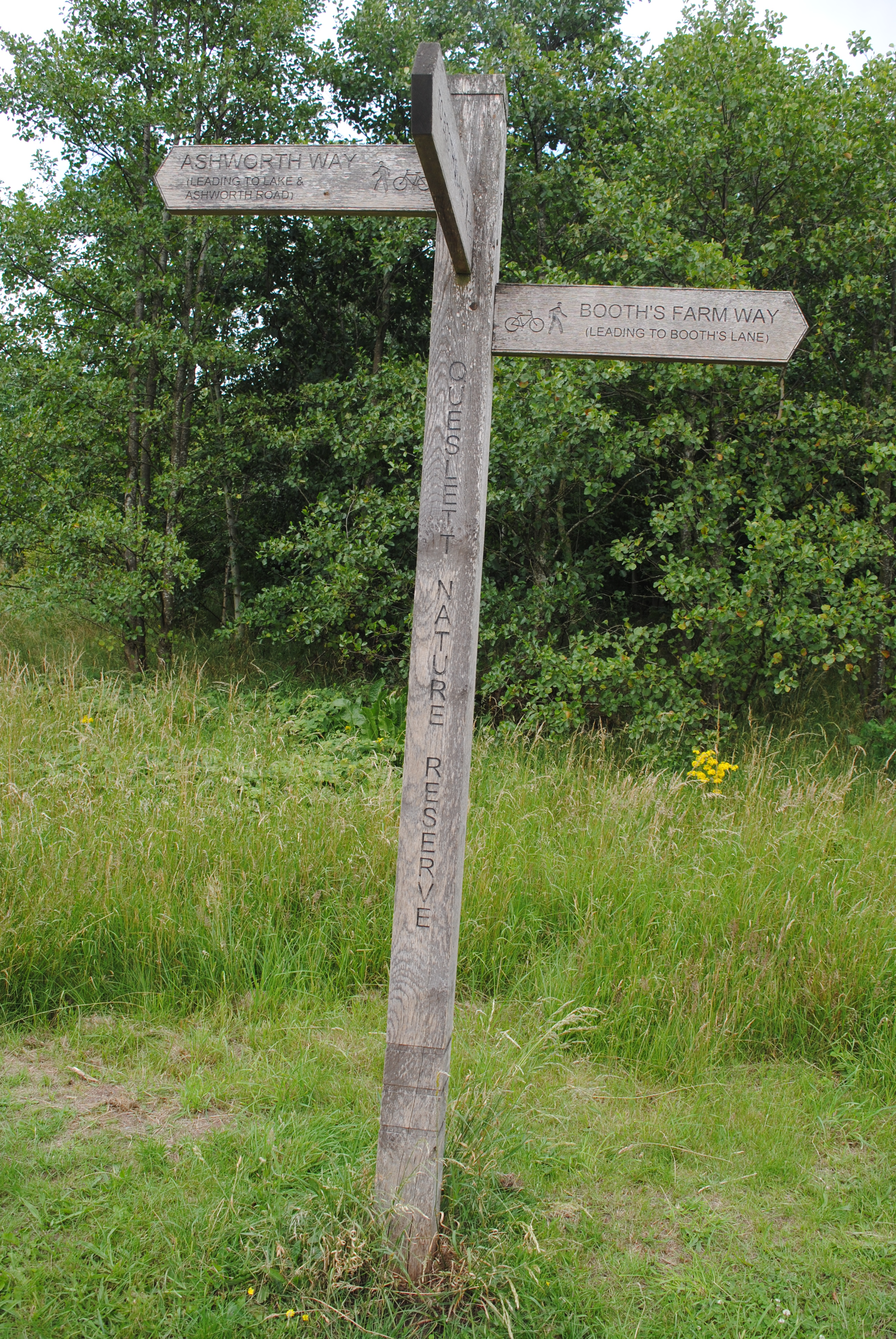 Queslett Nature Reserve fingerpost Left arrow: Ashworth Way (Leading to Lake & Ashworth Road) Right Arrow: Booth's Farm Way (Leading to Booth's Lane) Font-facing Arrow (text not visible): To Booth's Lane Post: Queslett Nature Reserve